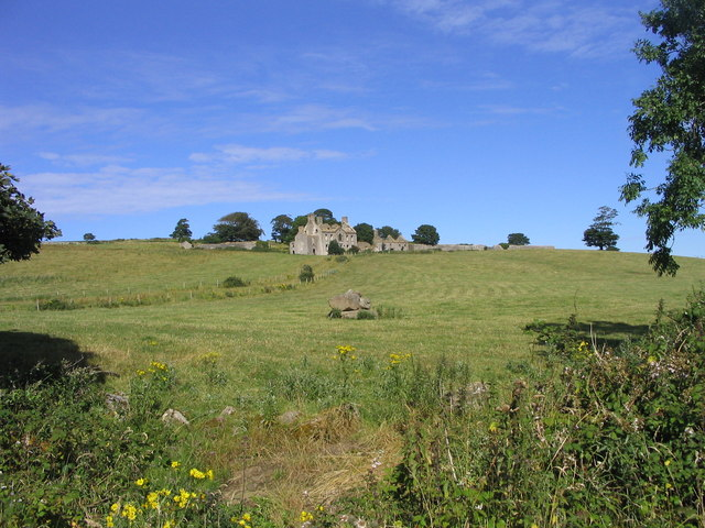 Dolmen and ruins of a farm, near Rathfran